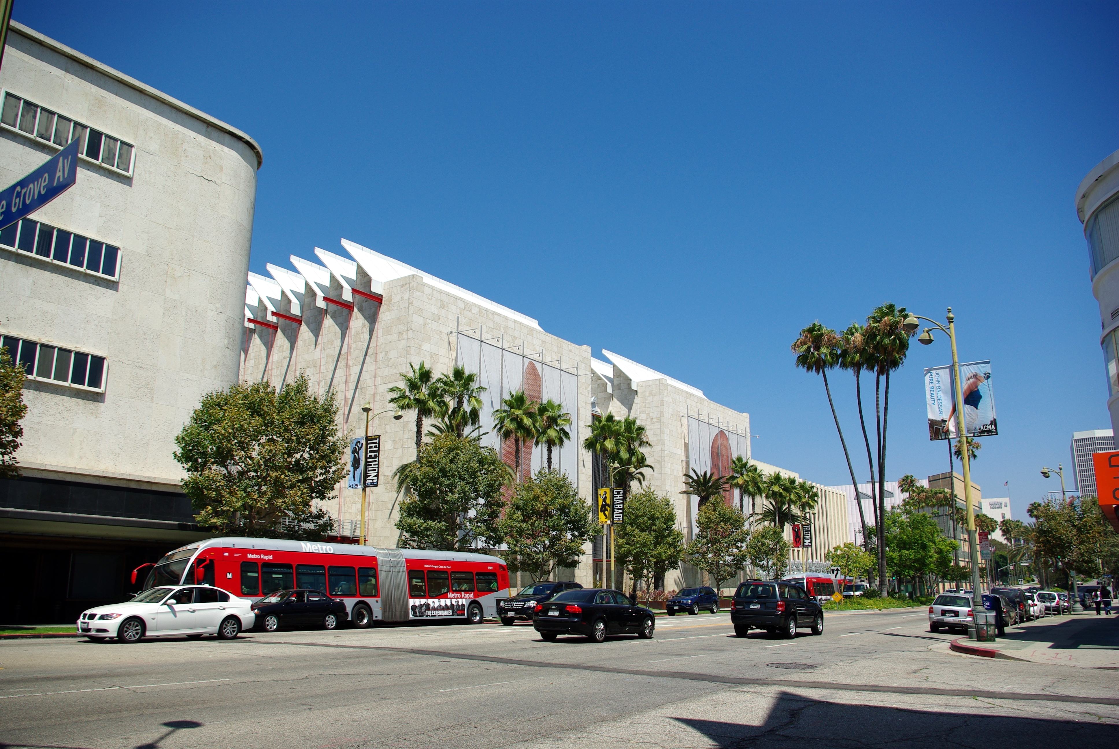 Los Angeles County Museum of Art, seen from Wilshire Boulevard.